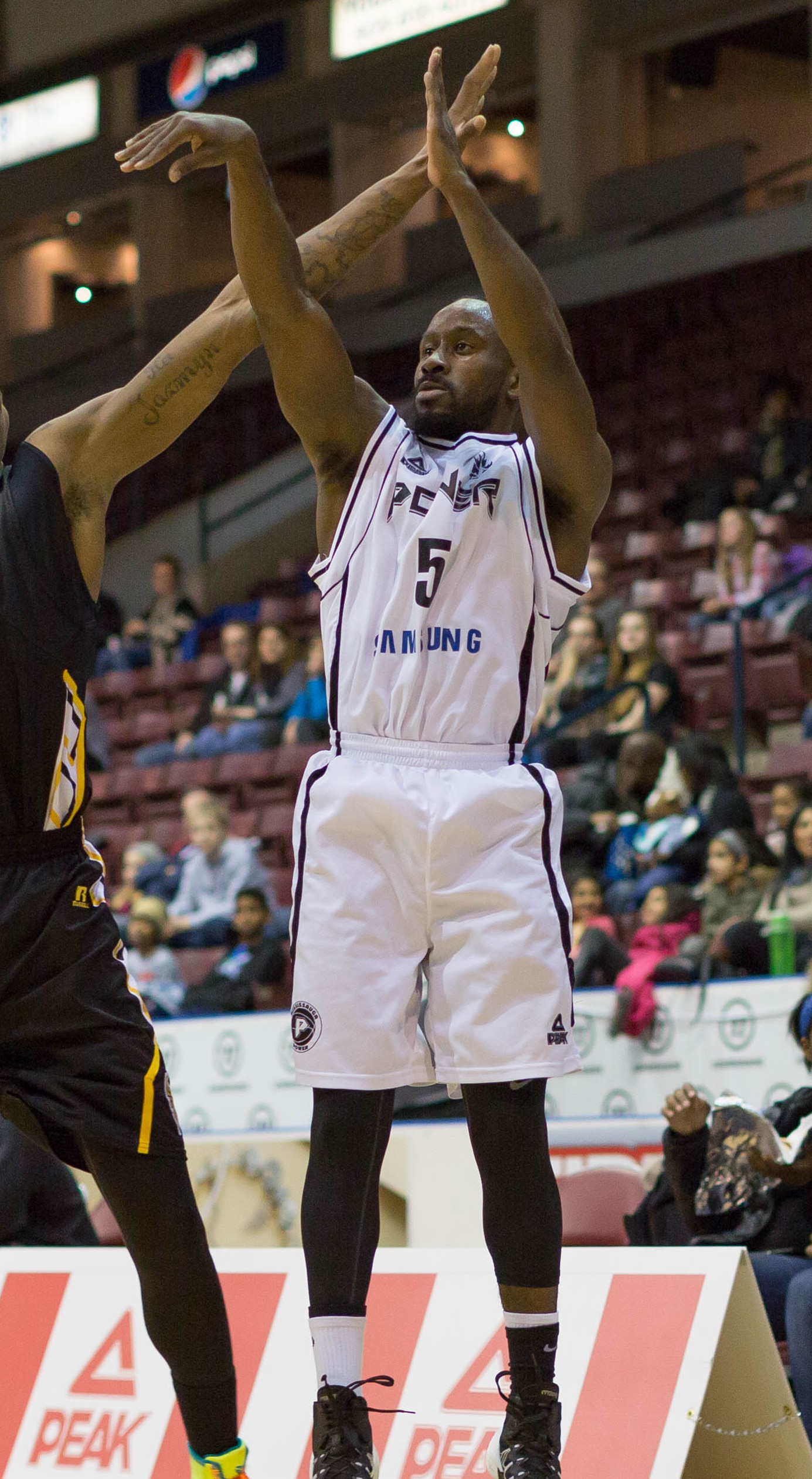 Mississauga Power player Omar Strong shoots the ball against the London Lightning in 2015.